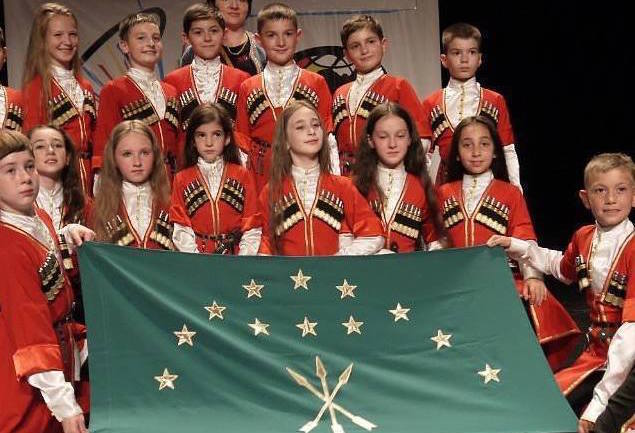 Russian children wearing circassian traditional costume